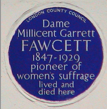 Millicent Fawcett Plaque, No. 2 Gower Street, London.